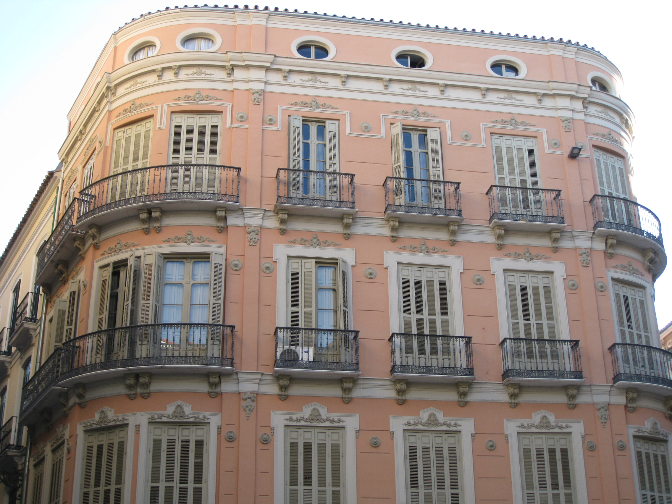 Building in calle Sánchez Pastor, Málaga. Architect: Jerónimo Cuervo González. Built in 1886.